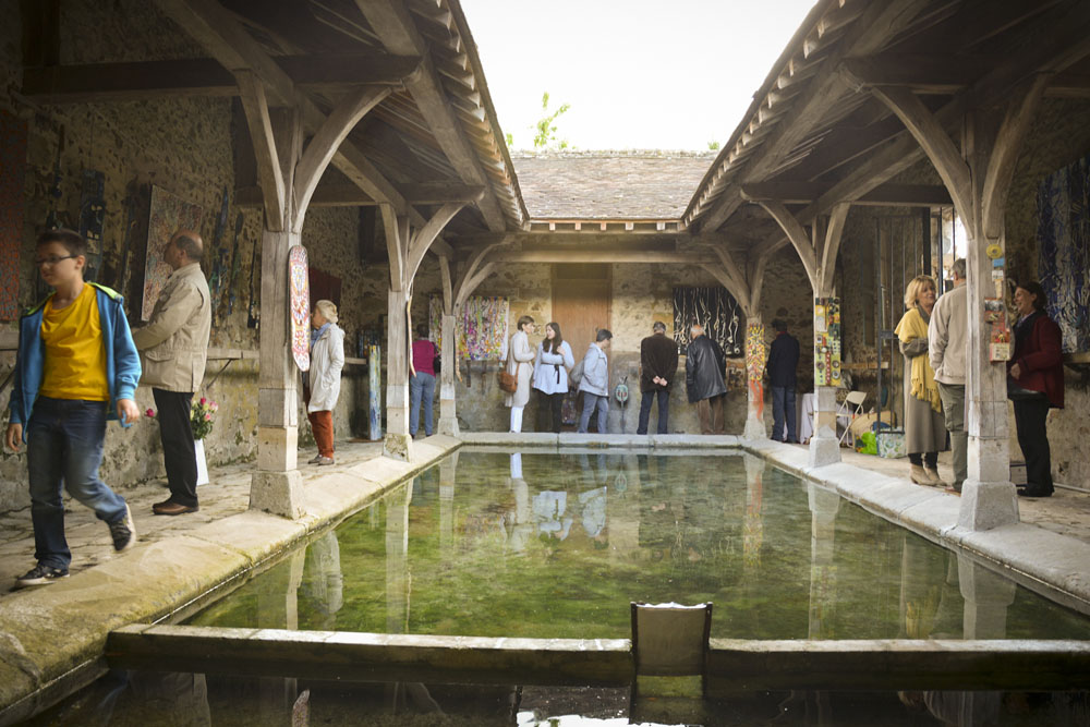 Wash house builds in 1825, it shelters exhibitions of temporary arts